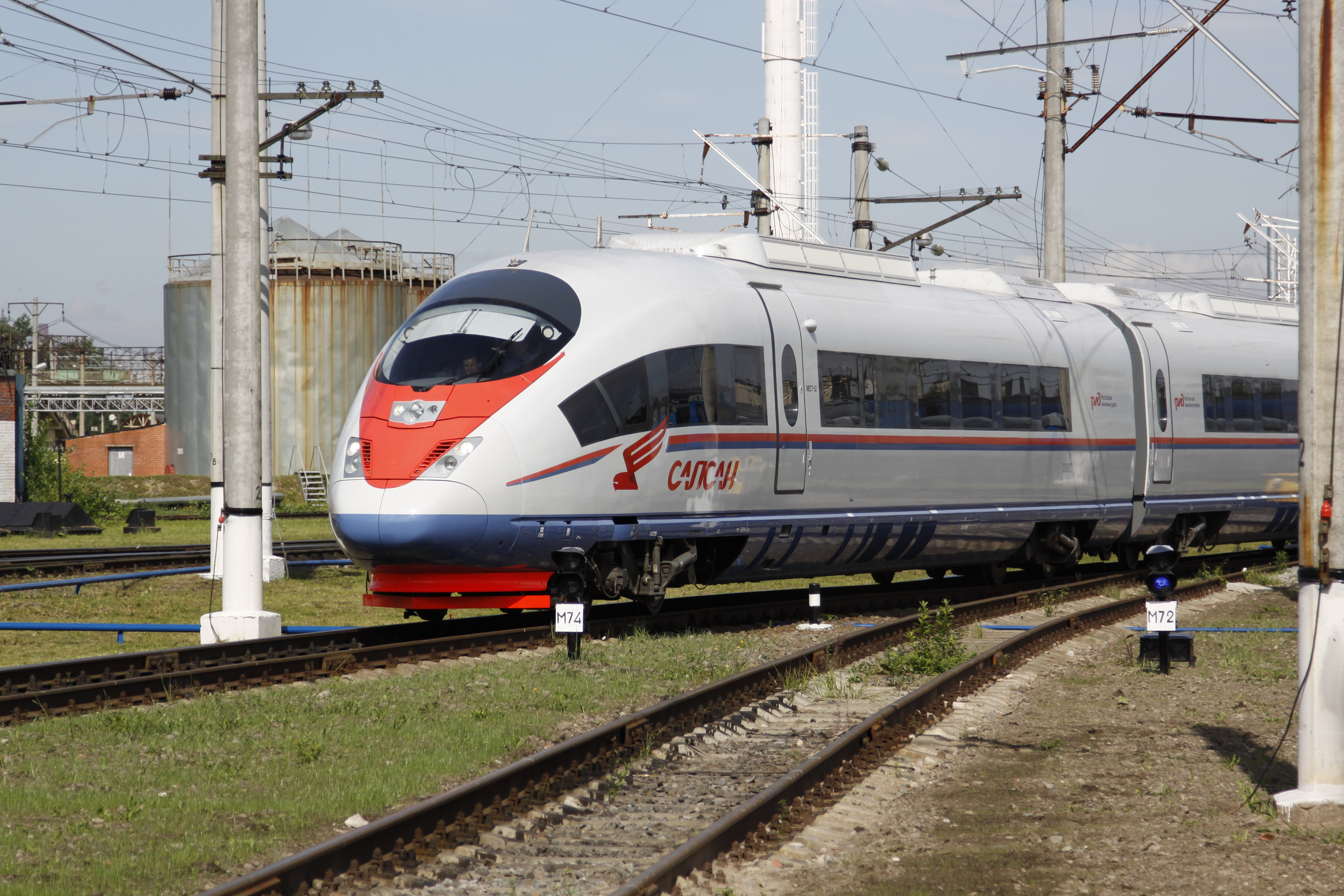 "Sapsan" electric train in motion.